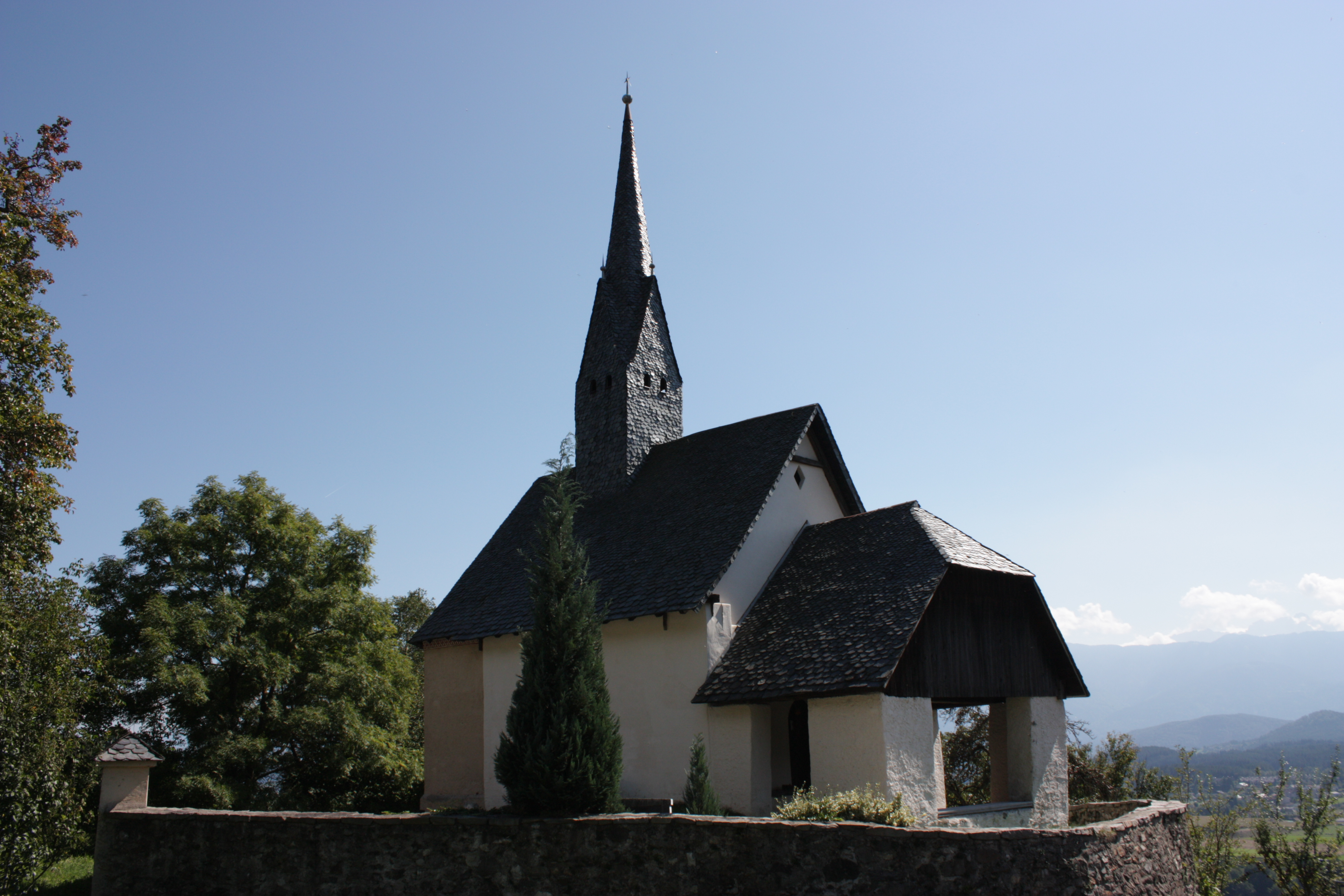 Subsidiary church Saint Laurentius Localtiy: Oberwollanig Community: Villach